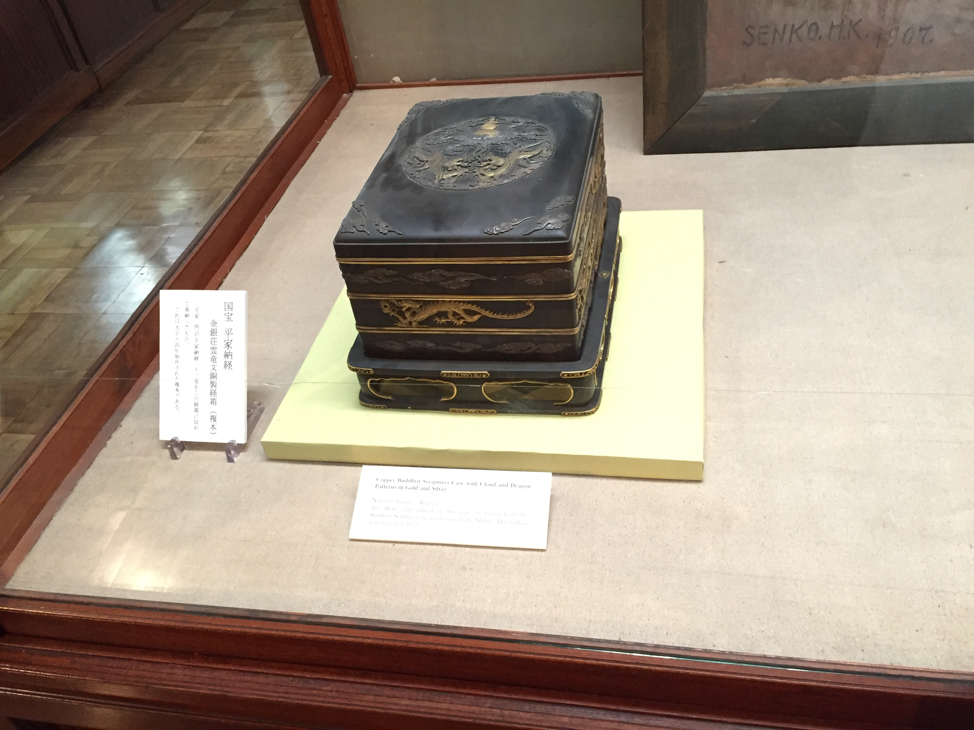 Box for Sutras, Miyajima Treasury